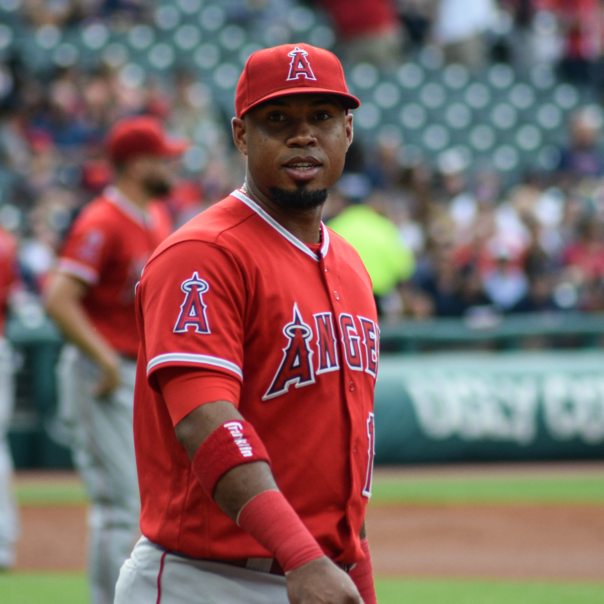 Angels First Baseman Luis Valbuena